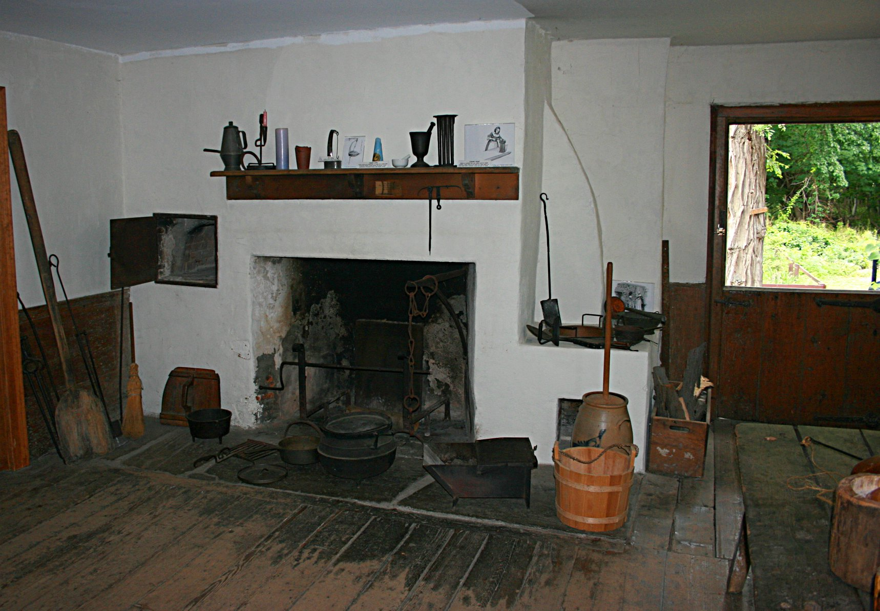 Photograph of the kitchen fireplace in the oldest portion of the Van Wyck Homestead in Fishkill, New York, New York, USA.